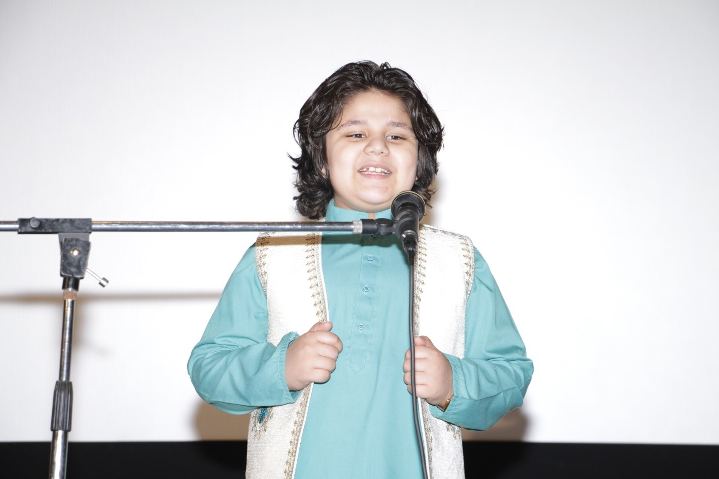 آٹھ سالہ پروفیسرزیدان مری آرٹس کونسل میں حاضرین کو لیڈرشپ کہانی سناتے ہوئے